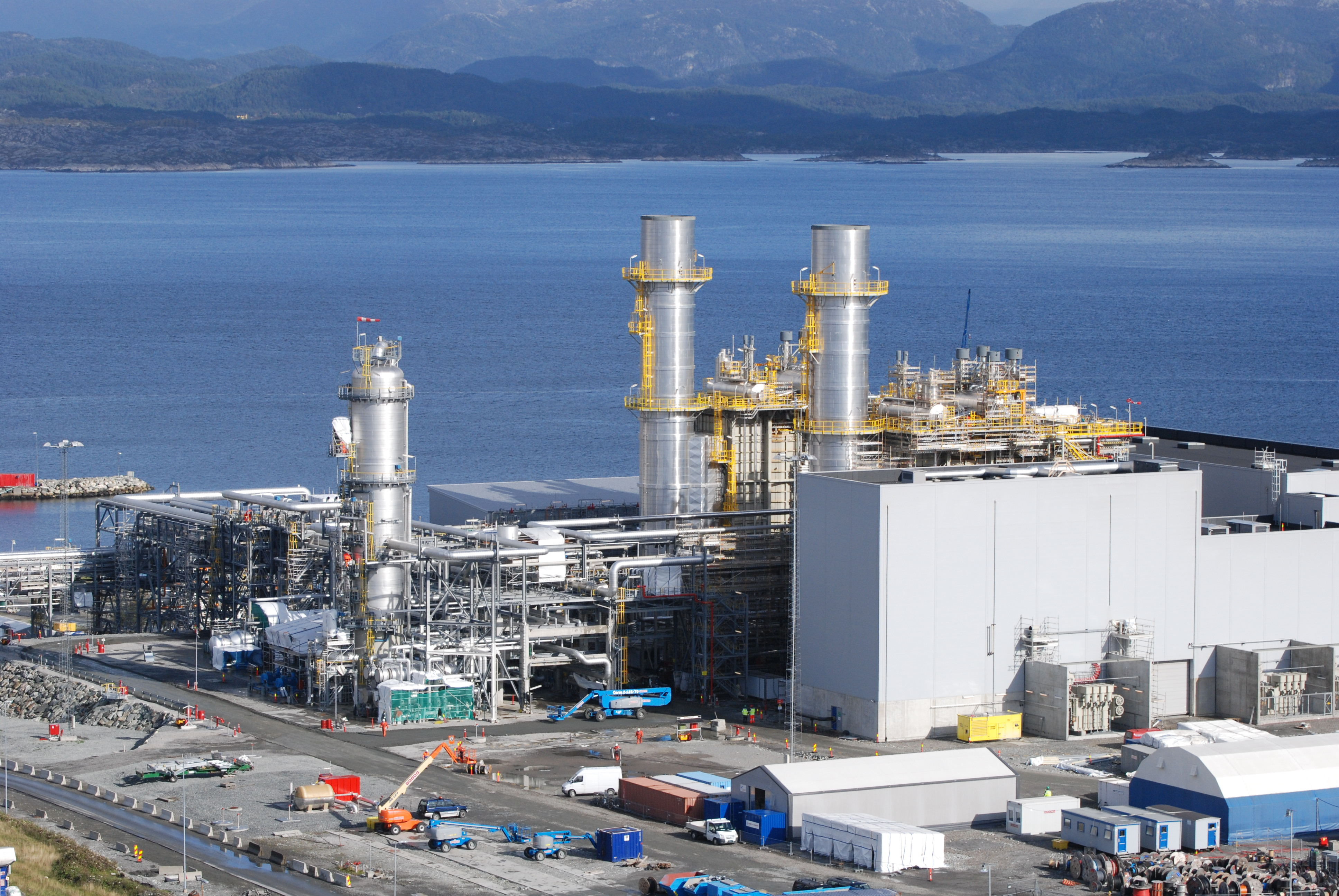 Mongstad CHP-plant autumn 2009. Construction of the plant is almost complete, but some work remains.